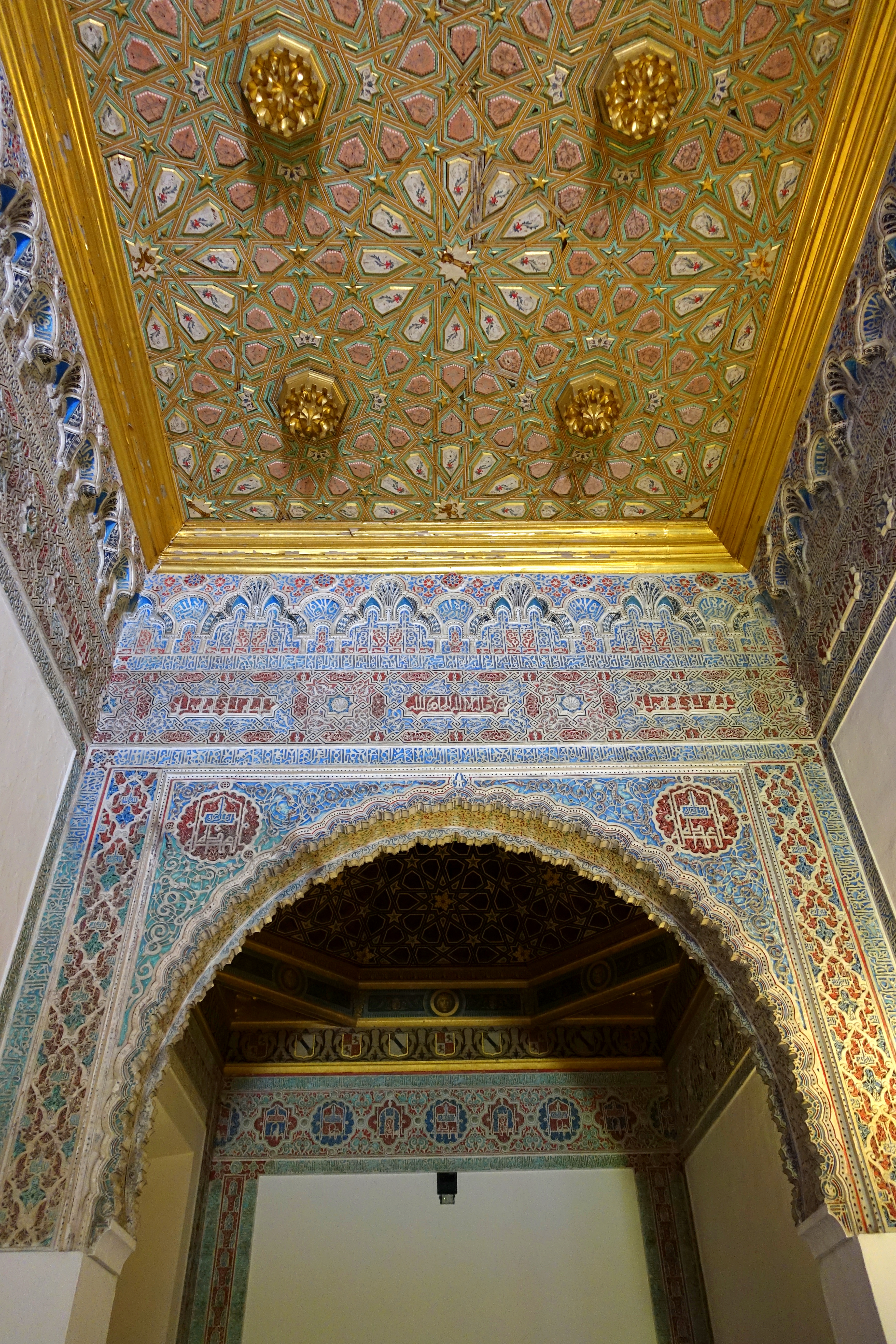 Alcázar of Seville, Spain.